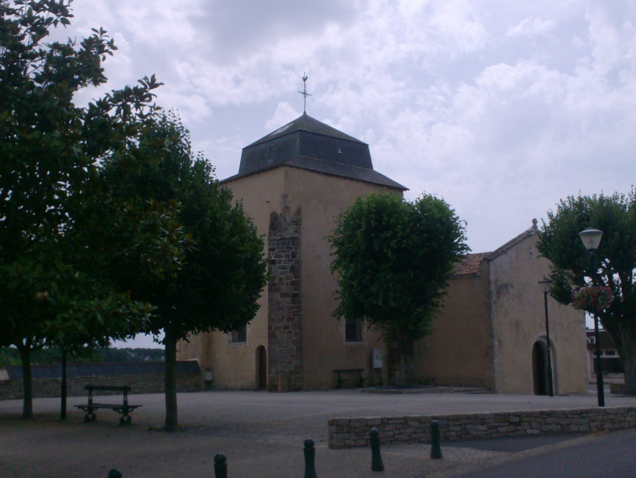 Church Saint-Vincent-sur-Jard